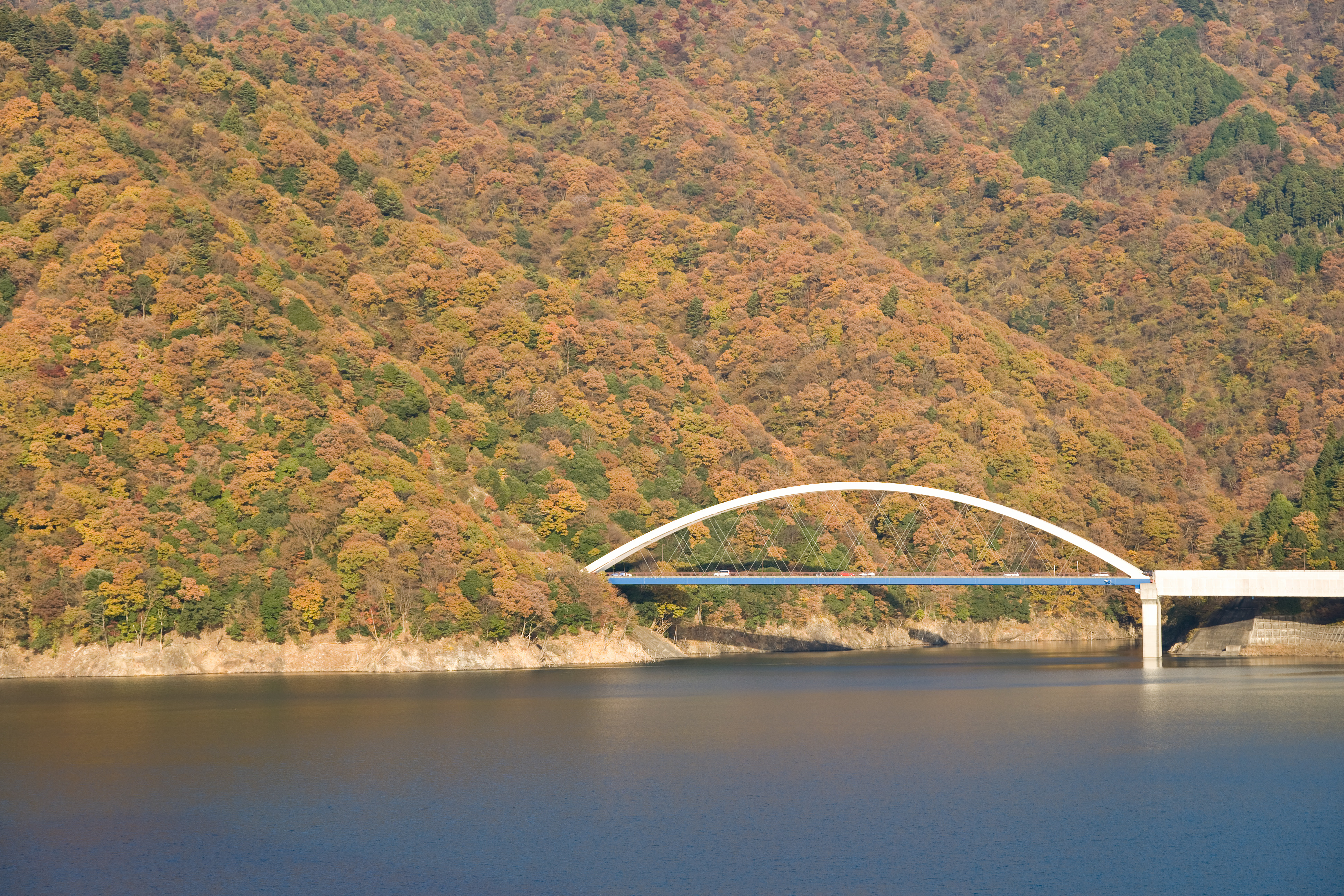 Otanasawa Bridge of Lake Miyagase in Kiyokawa-village, Kanagawa, Japan.